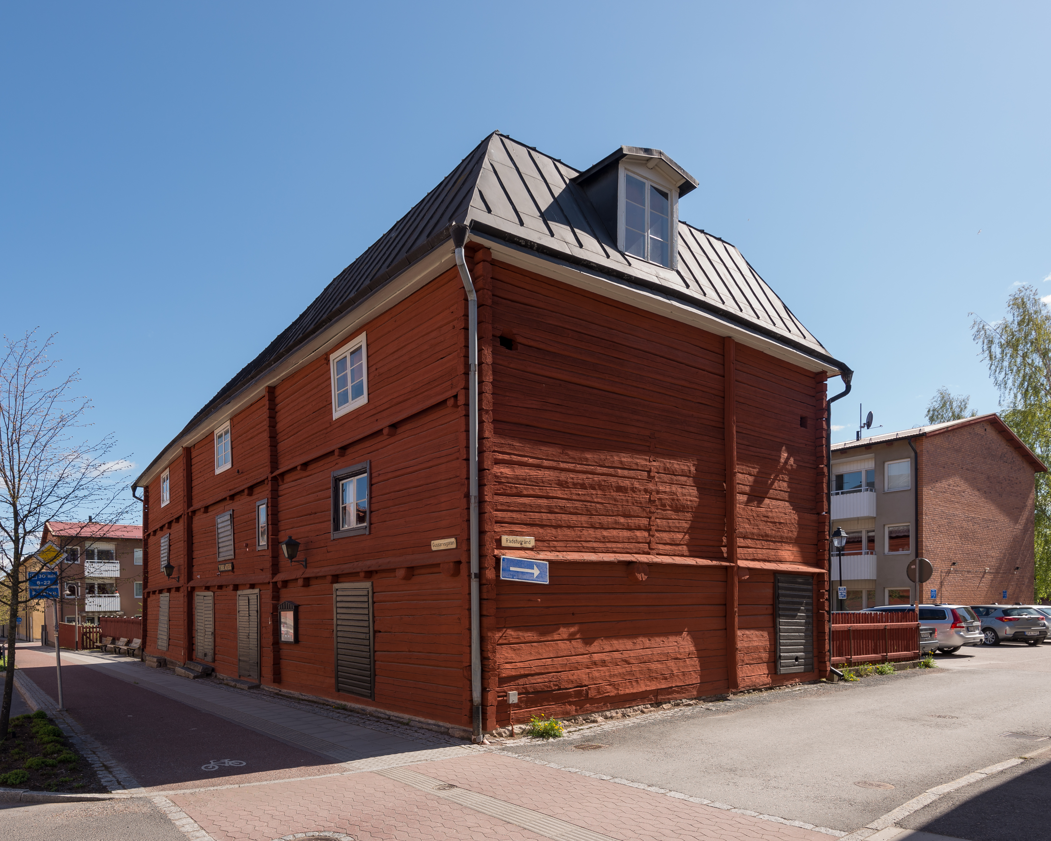 Old theatre of Hedemora. Hedemora, Sweden.